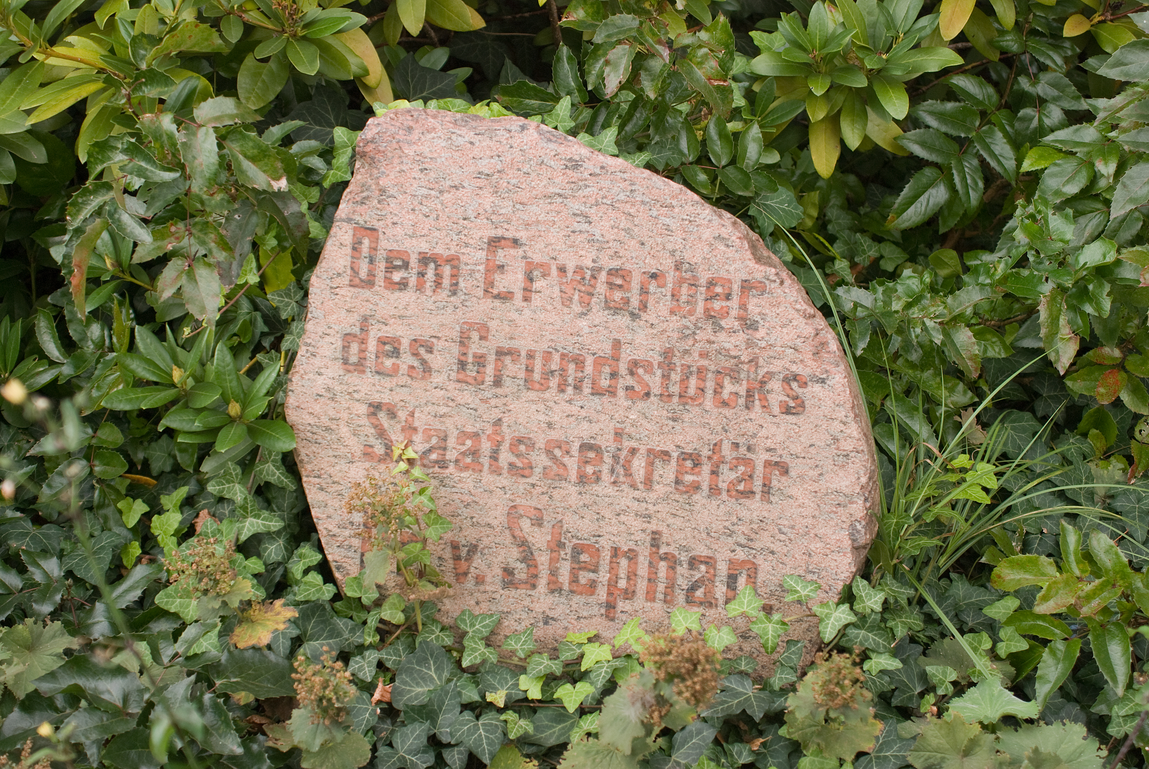 Commemorative stone remembering Heinrich von Stephan at the main post office in Frankfurt (Oder), Germany.